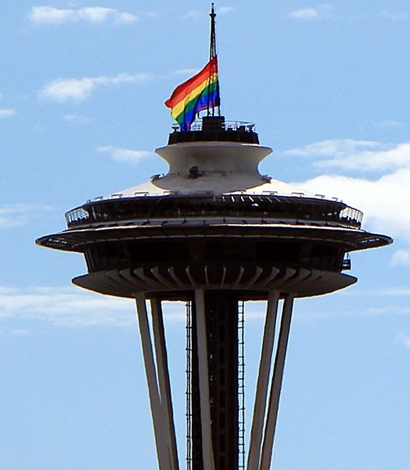 The spire of the Space Needle in Seattle, United States pictured on June 12, 2016.